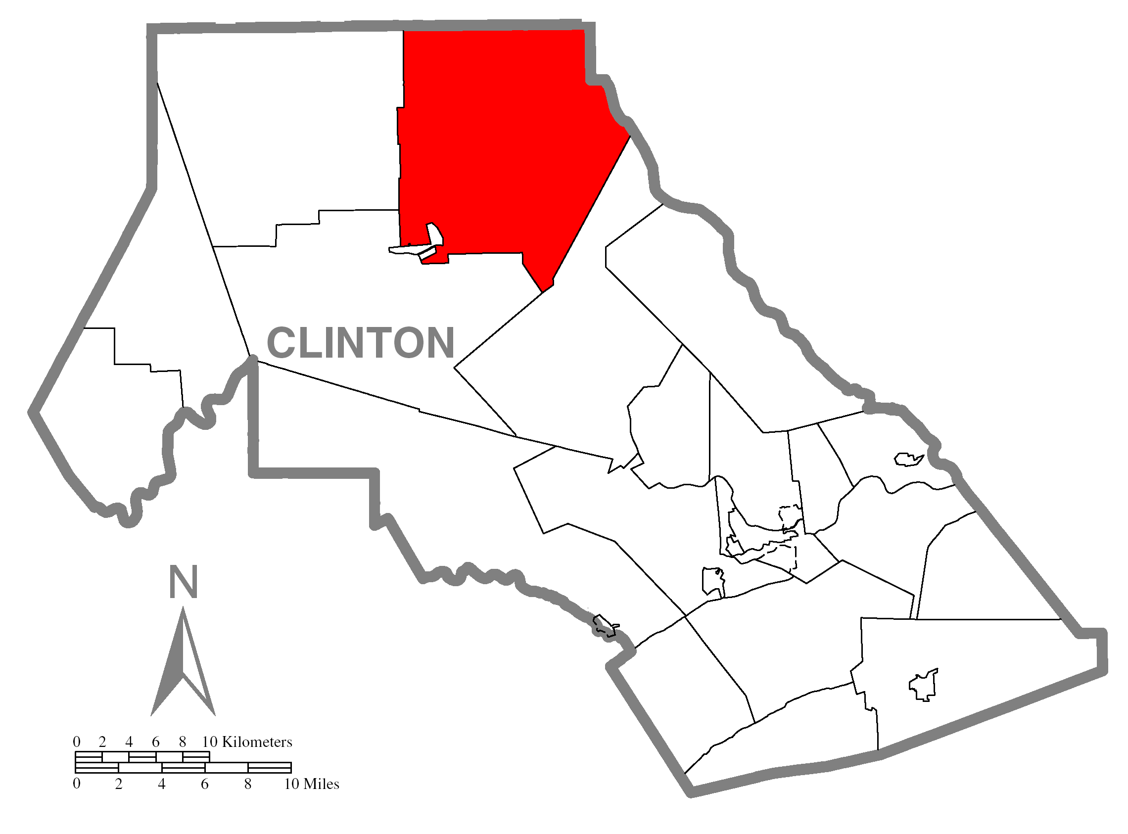 A map of Clinton County showing Chapman Township, Pennsylvania (alternate) highlighted on the map.